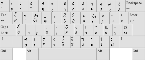 Lao keyboard layout, as it appears when I type it on my computer